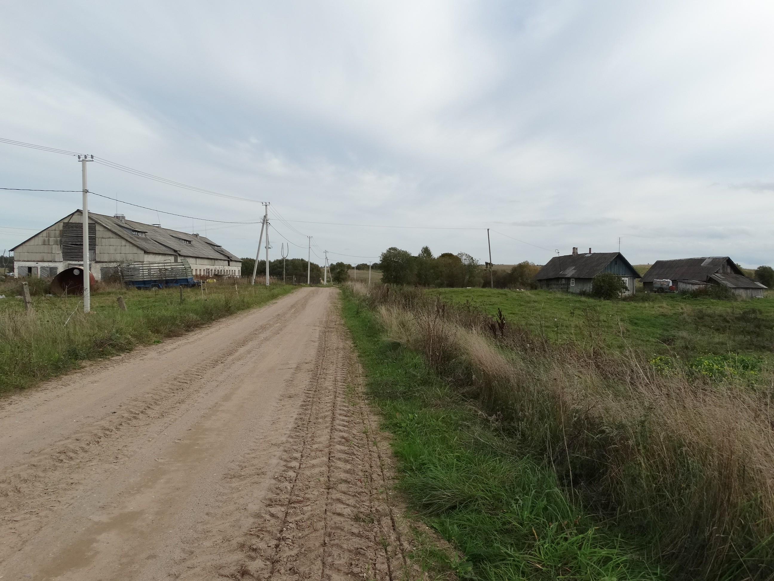 Kovaičiai, Kaišiadorys District, Lithuania